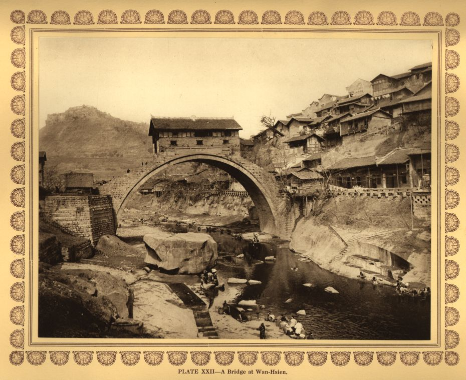 Plate XXII A Bridge at Wan-Hsien, photogravure from a black-and-white photograph, before 1926, on a page from Donald Mennie's book, The Grandeur of the Gorges, Published 1926